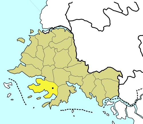 A map of South Hwanghae Province, North Korea, showing the location of Ongjin County and Ongjin-up. Existing maps on Commons used as source of coastline & administrative boundary information.